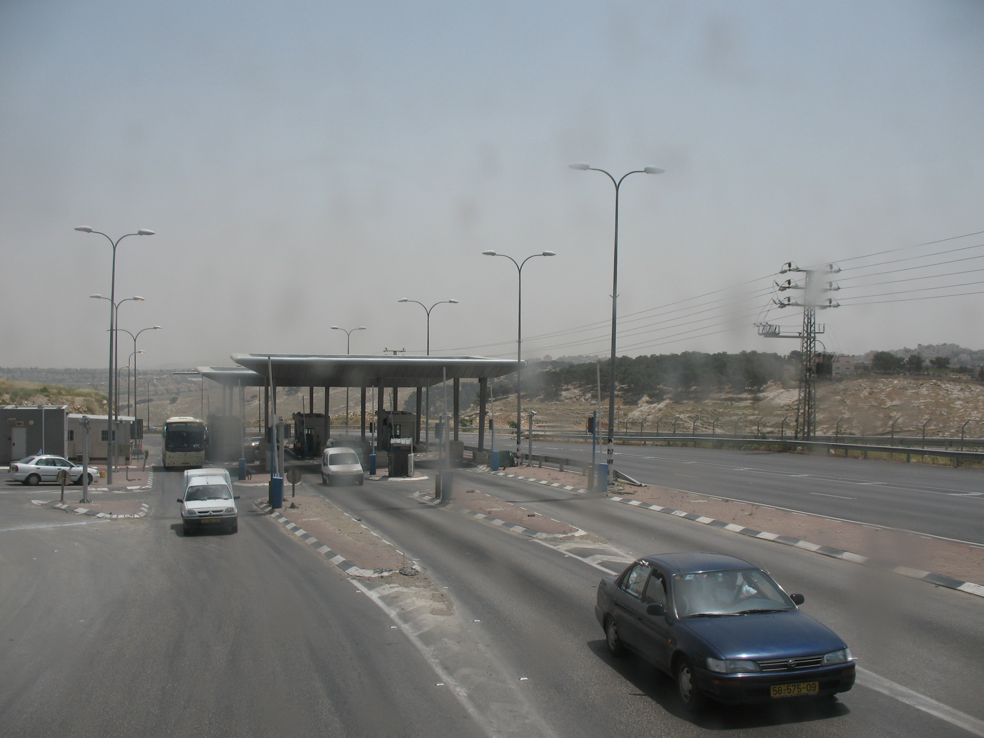 alZaim Checkpoint entering Greater Jerusalem_1338 Pictures taken around Jerusalem (excluding Old City).